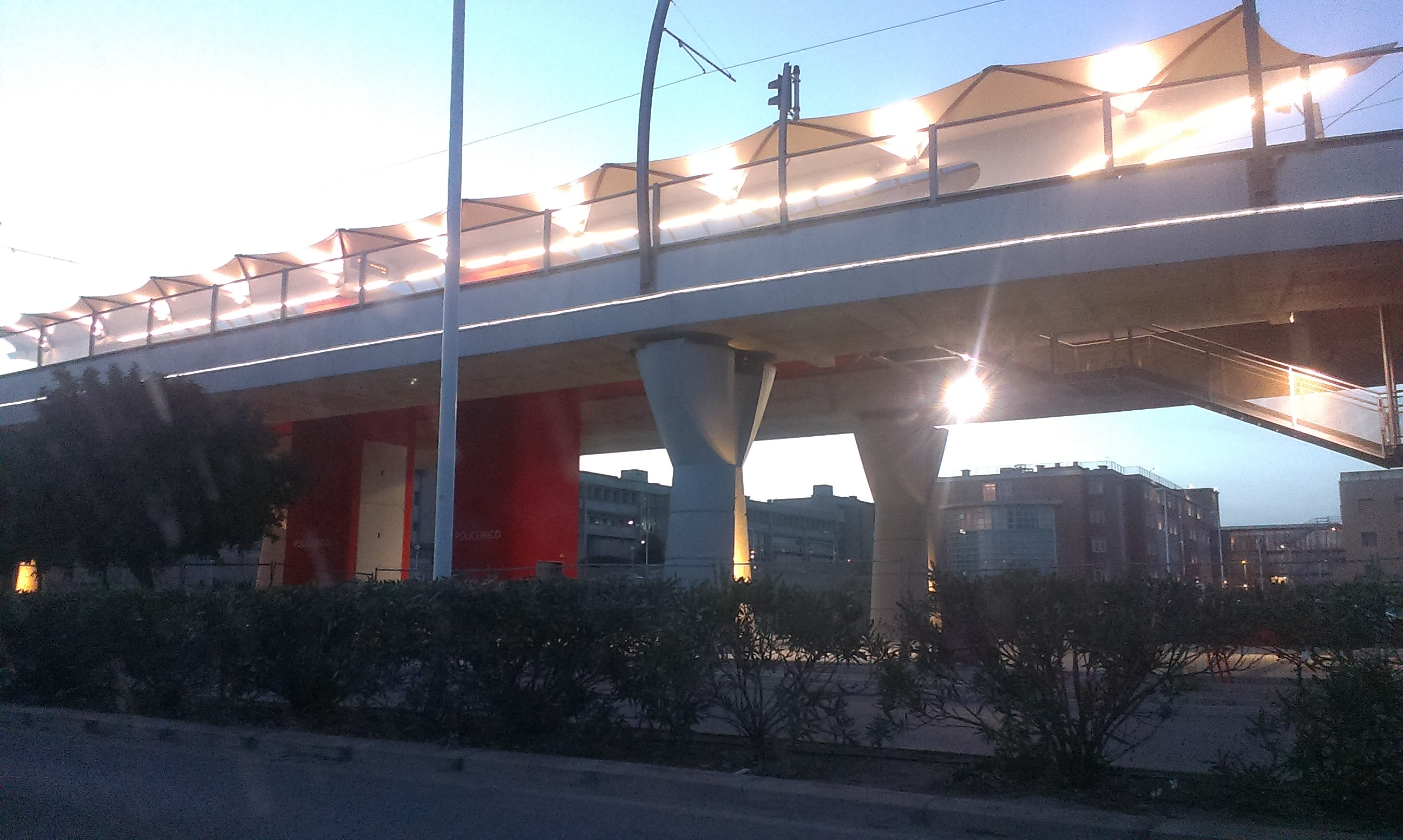 The Policlinico terminus of the line 1 of the light railway of Cagliari, Sardinia, Italy, before opening.